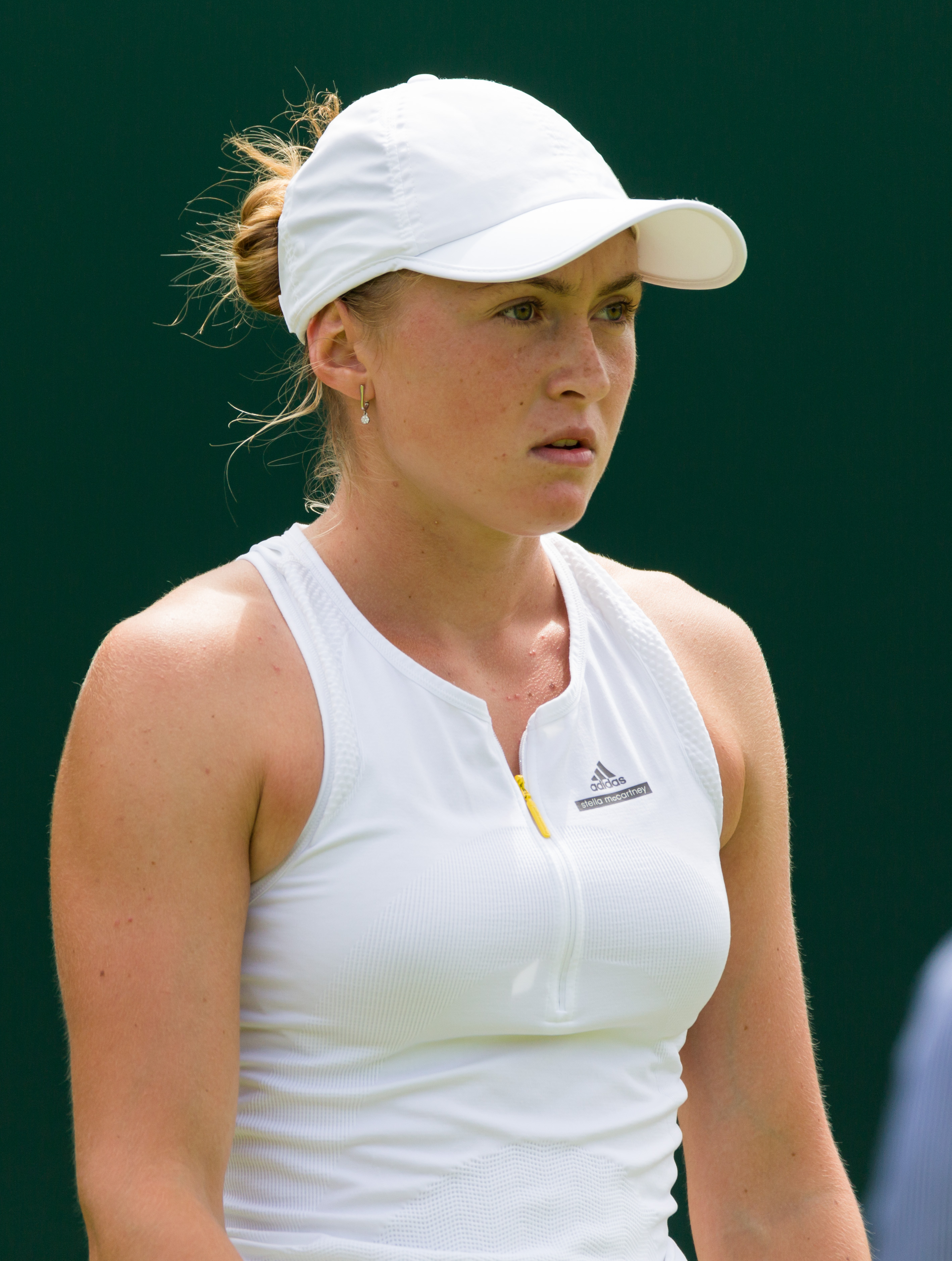 Aliaksandra Sasnovich competing in the first round of the 2015 Wimbledon Championships against Zhu Lin.